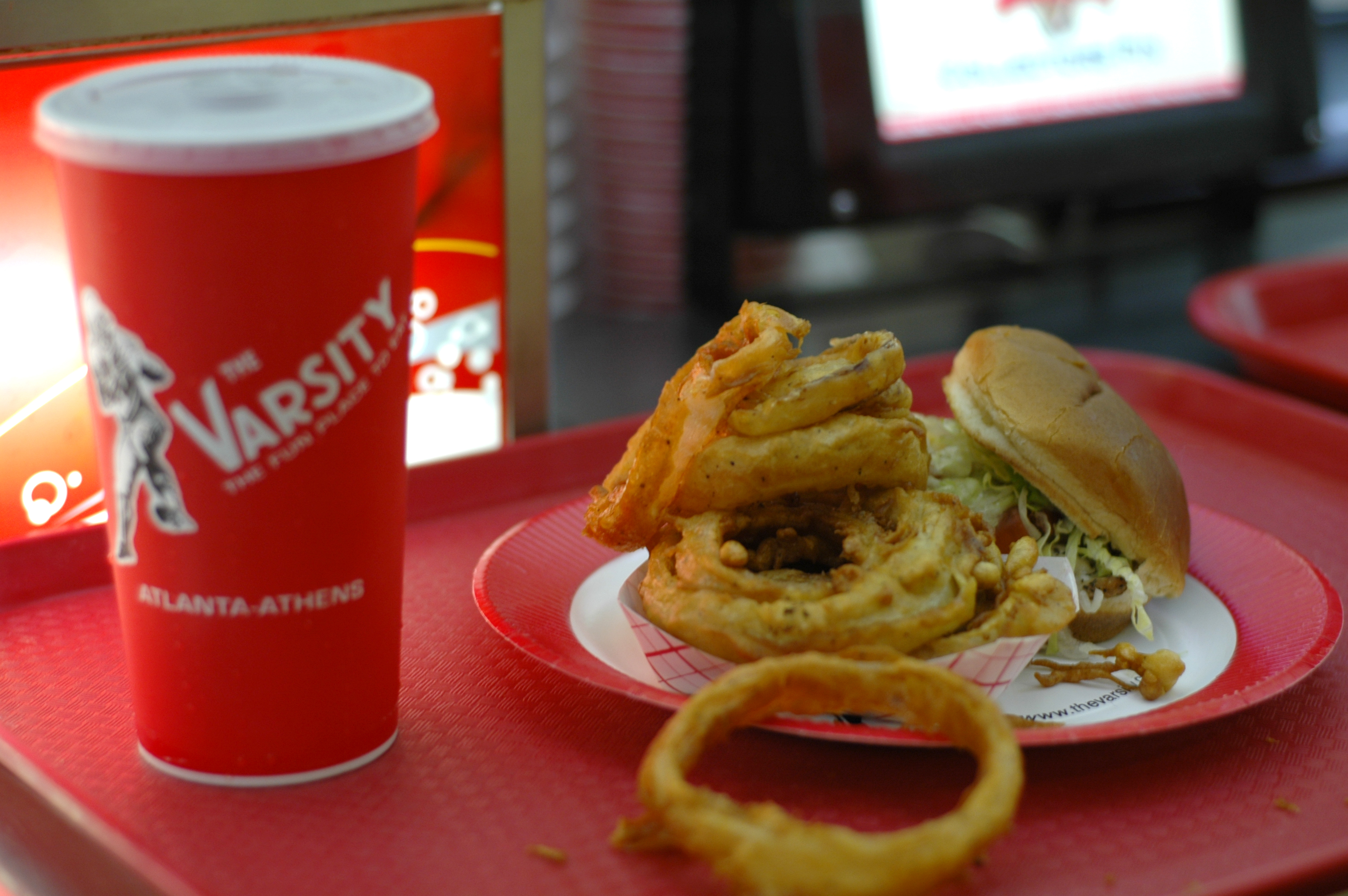 My first meal in Atlanta, at The Varisty near Georgia Tech's campus.